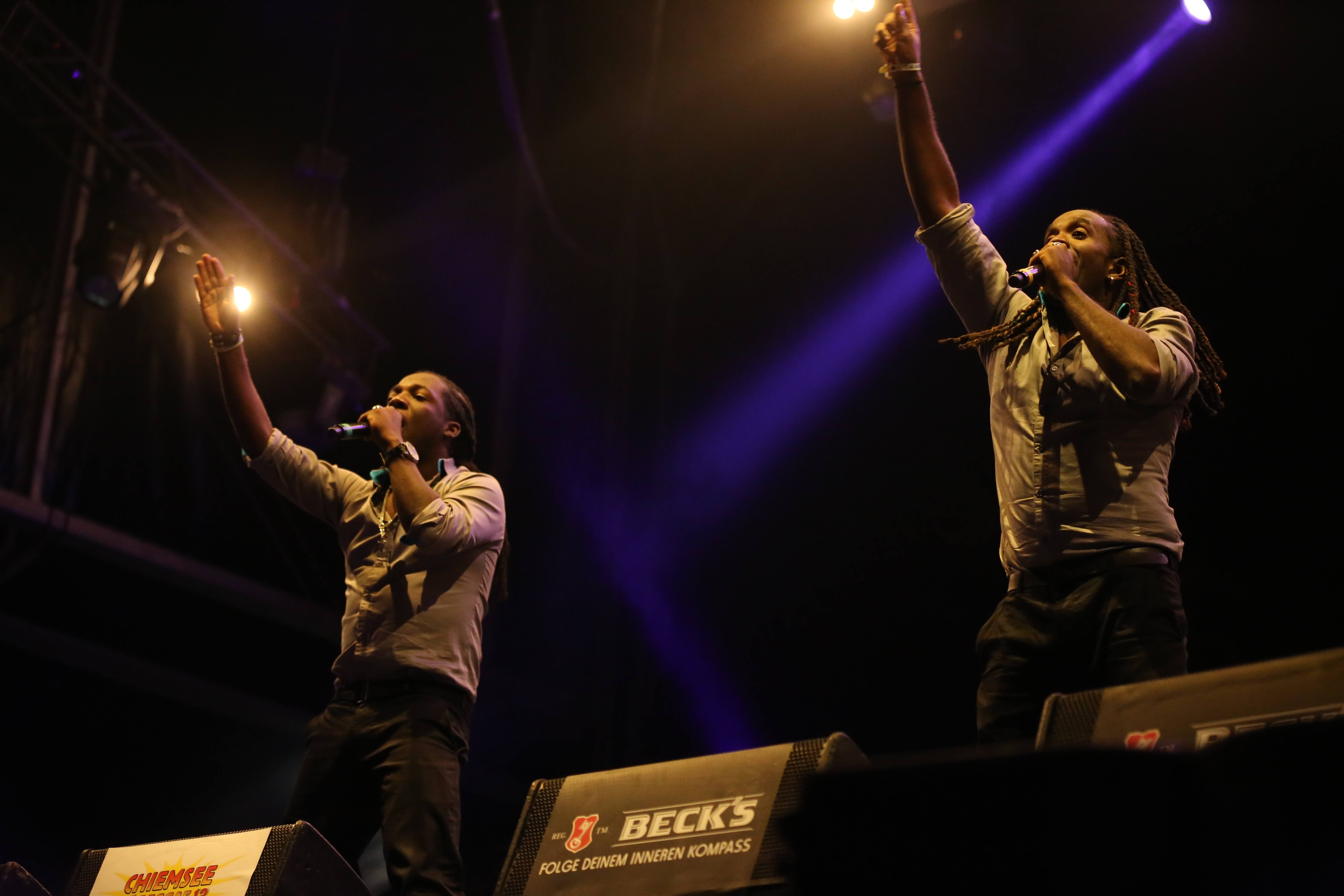 T.O.K. at Chiemsee Reggae Summer Festival 2013